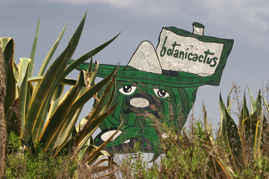 Botanicactus Schild